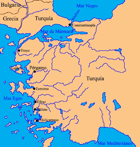 Map of the Middle East coast, with the ancient cities. Dibujo hecho por Nicolás Pérez, especial para este artículo. Agosto 2004.